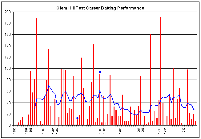 This graph details the Test Match performance of Clem Hill. It was created by Raven4x4x. The red bars indicate the player's test match innings, while the blue line shows the average of the ten most recent innings at that point. Note that this average cannot be calculated for the first nine innings. The blue dots indicate innings in which Hill finished not-out. This graph was generated with Microsoft Excel 2002, using data from Cricinfo [1] and Howstat [2].